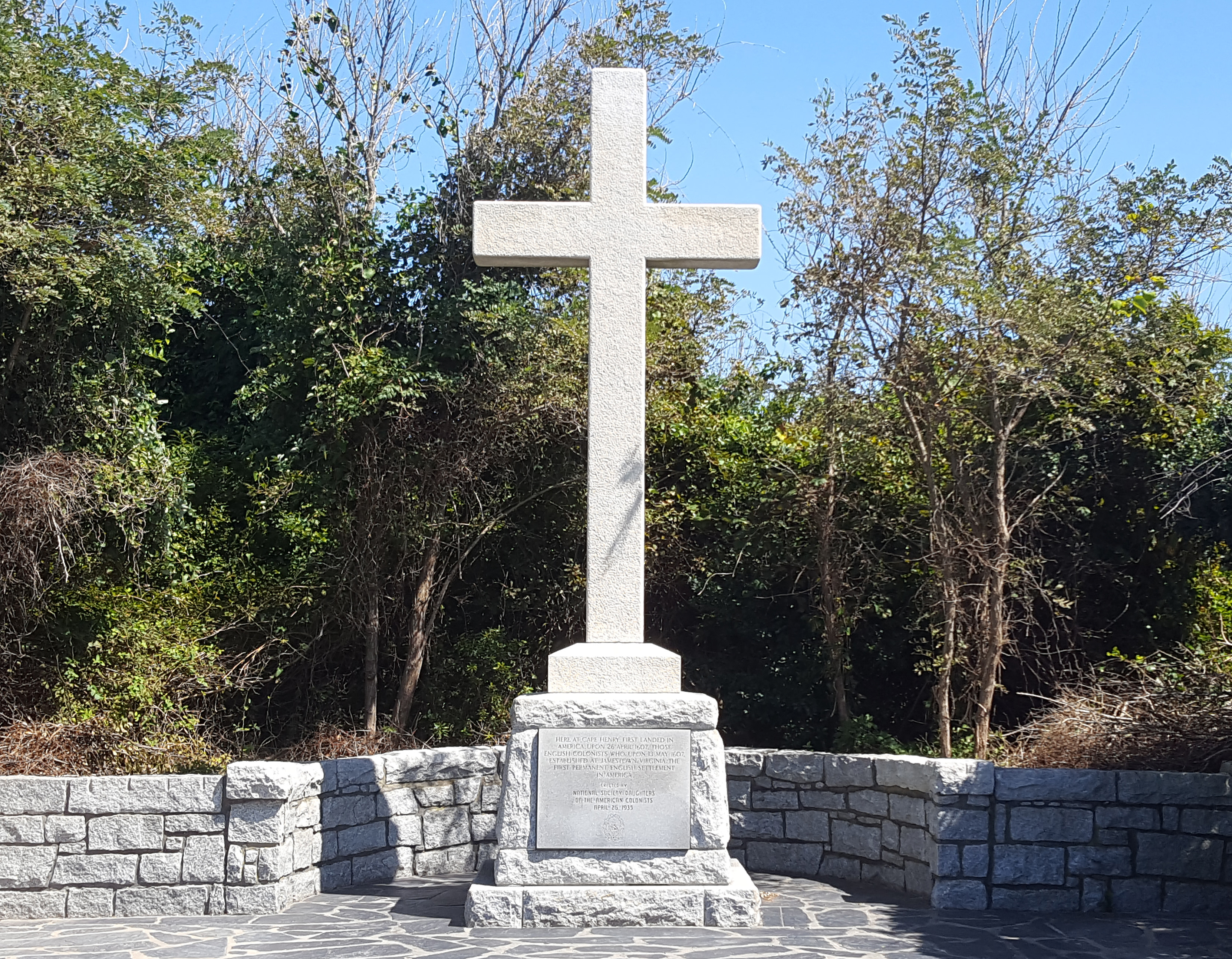 This is the First Landing cross located on Cape henry in Virginia Beach, VA